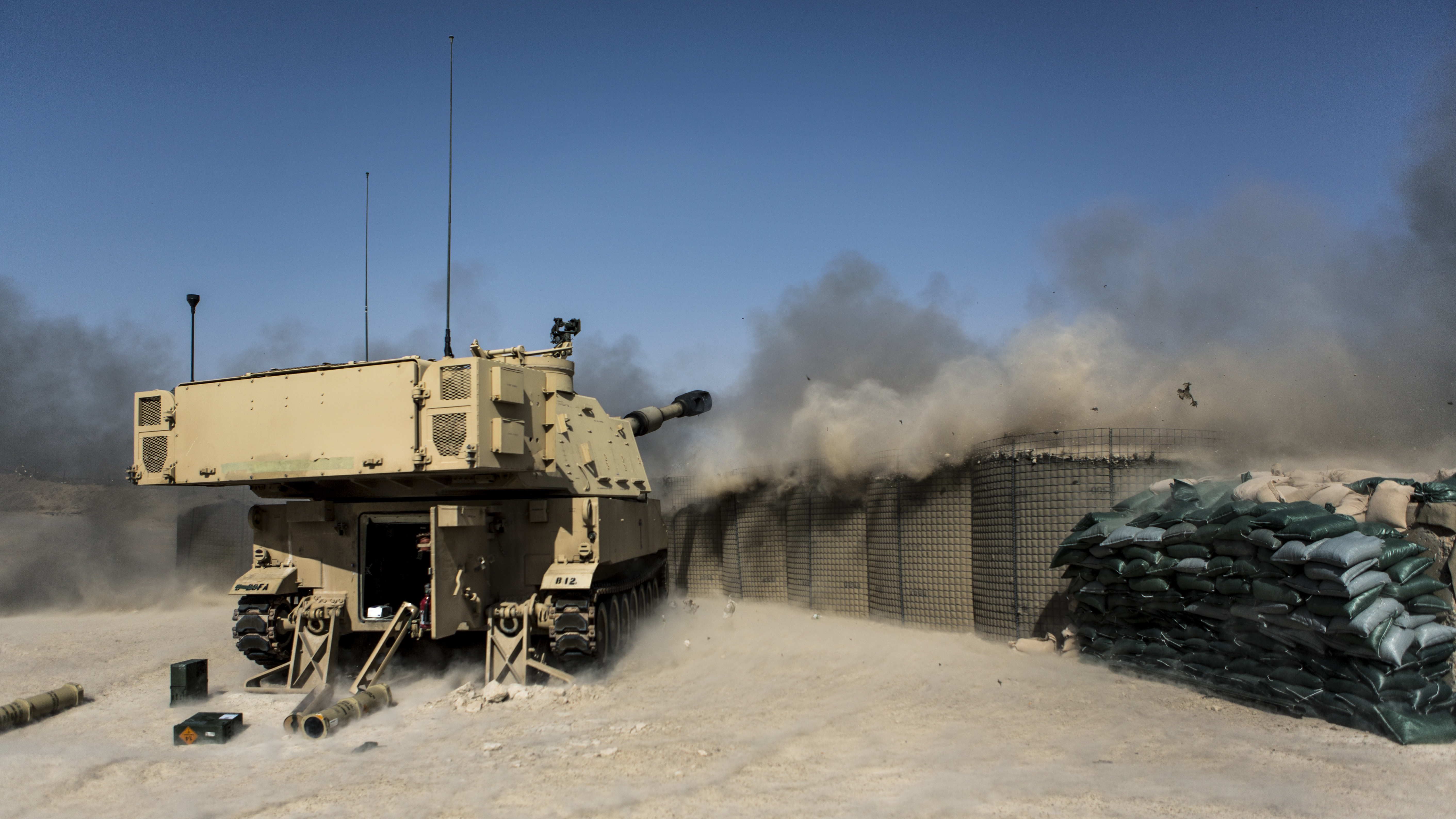 U.S. Army Soldiers with Battery C, 4th Battalion, 1st Field Artillery Regiment, 1st Armored Division, Task Force Al Taqaddum, fire an M109A6 Paladin howitzer during a fire mission at Al Taqaddum Air Base, Iraq, June 27, 2016. The strikes were conducted in support of Operation Inherent Resolve, the operation aimed at eliminating the Islamic State of Iraq and the Levant, and the threat they pose to Iraq, Syria, and the wider international community. The destruction of ISIL targets in Iraq further limits the group's ability to project terror and conduct operations. (U.S. Marine Corps photo by Sgt. Donald Holbert/ Released) Unit: 5th Marine Expeditionary Brigade